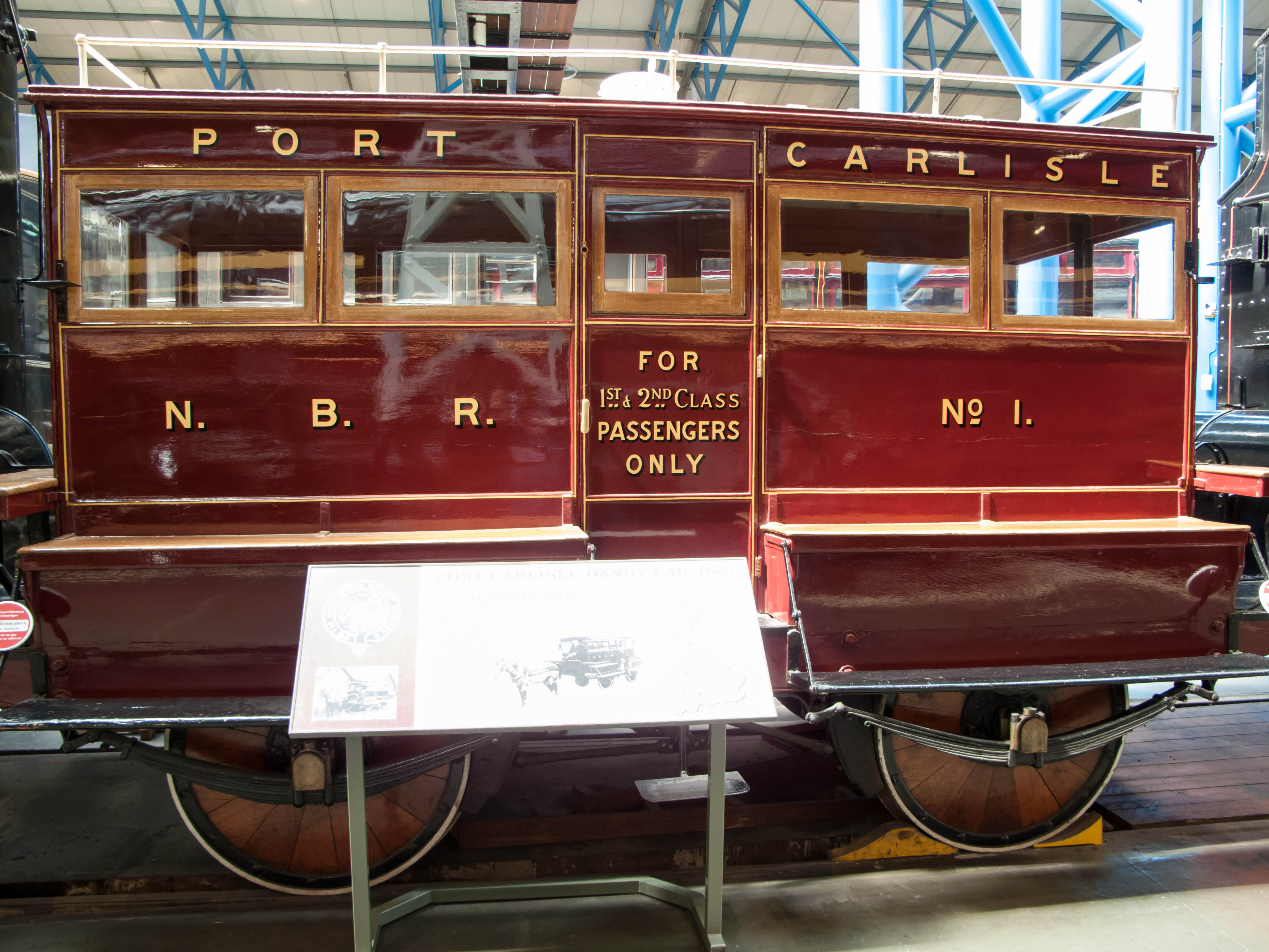 Horse-drawn carriage from Scotland